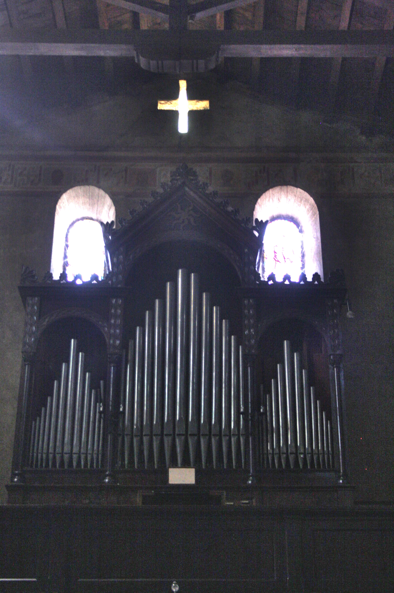 Basilica of Saints Peter and Paul in Agliate, Lombardy, Italy.